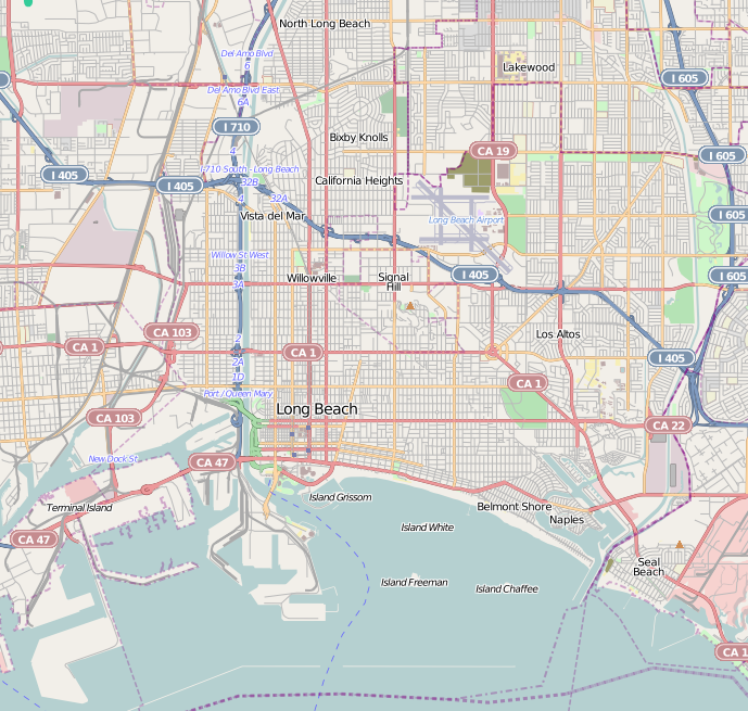 This map of Long Beach, California was created from OpenStreetMap project data, collected by the community. This map may be incomplete, and may contain errors. Don't rely solely on it for navigation. Border coordinates33.8645-118.2683←↕→-118.077433.7138